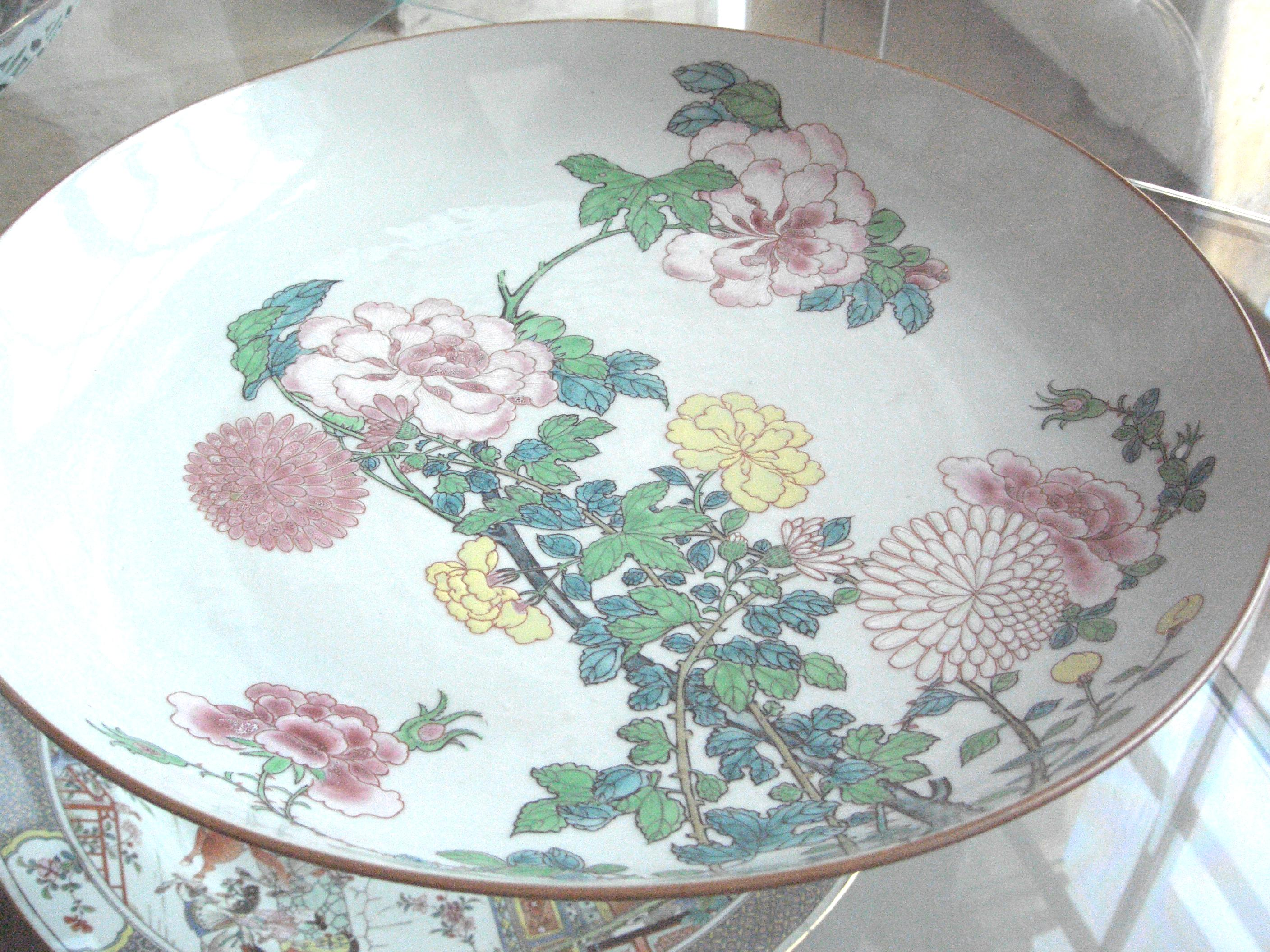 Plate in famille-rose-Style - Qing Dynasty